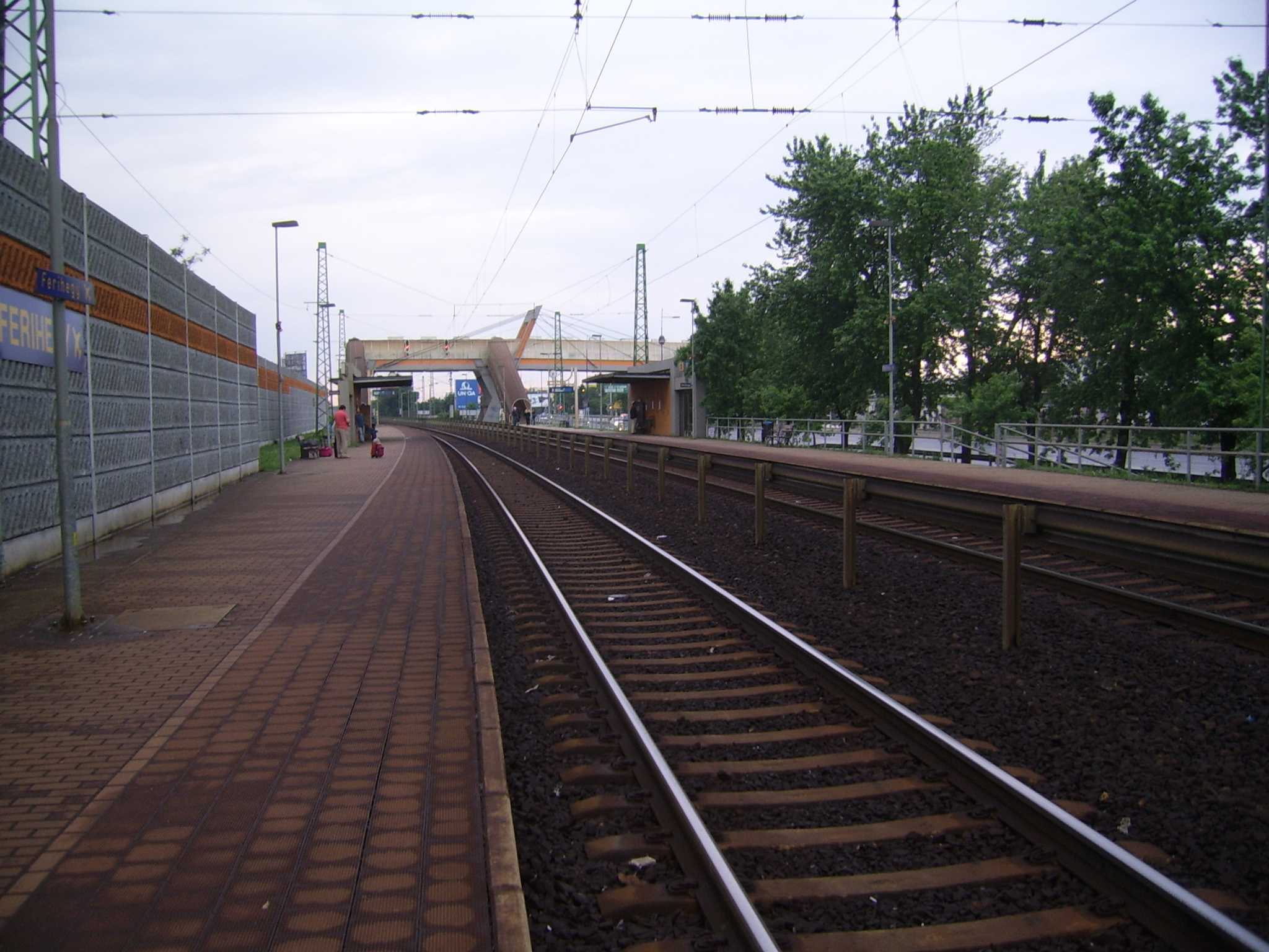 Railway station of the Ferihegy airport in Budapest.